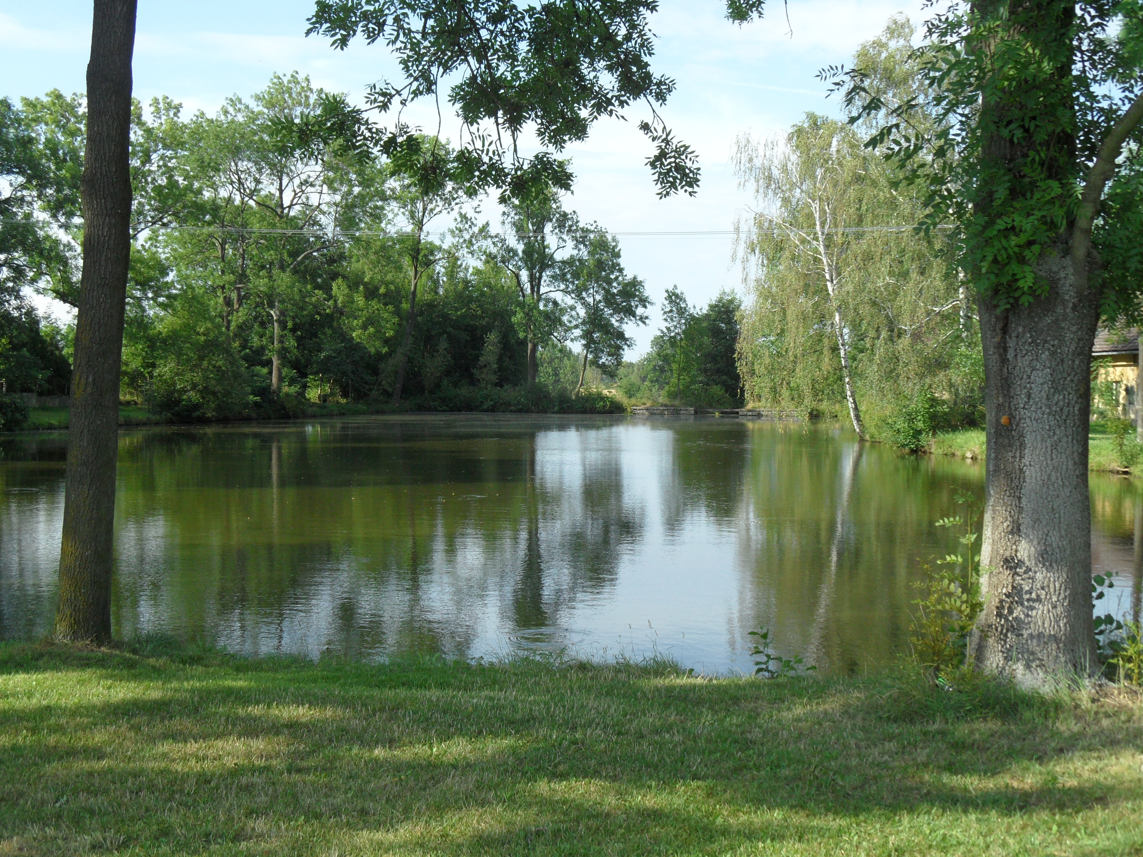 Nepoměřice D. Pond in the Village, Kutná Hora District, the Czech Republic.